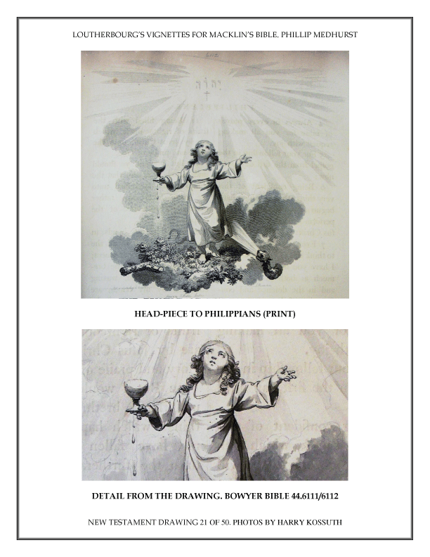 Head-piece to Philippians. Philippians 2:7-8. Vignette with a child standing with chalice in outstretched hand, looking up in exaltation to the name of God in Hebrew inscribed above, a serpent's head appearing from clouds below at right; letterpress in two columns above. 1800. Inscriptions: Lettered below image with production detail: "P J de Loutherbourg delt et invt", "J. Heath direx" and publication line: "Publish'd by T. Macklin, London". Print made by James Heath. Dimensions: height: 495 millimetres; width: 375 millimetres.